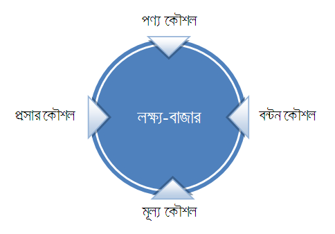 Developing Marketing Mix Strategies.